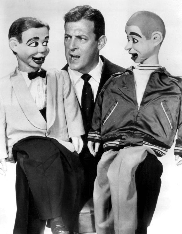 Photo of Paul Winchell with Jerry Mahoney (left) and Nucklehead Smiff (right) from the television program The Paul Winchell Show.